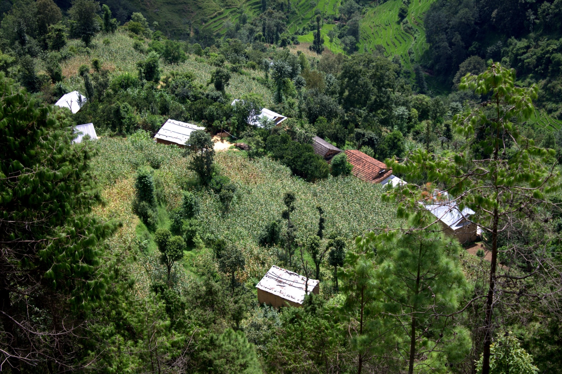 Shyampati Village in Kavre.